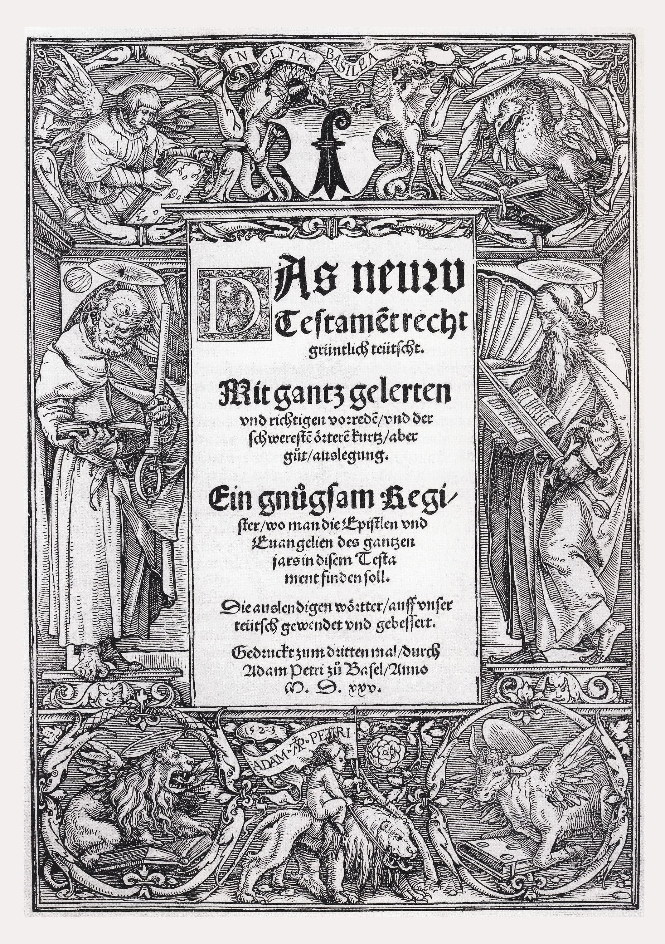 Title Page Border for Adam Petri's Reprint of Martin Luther's Translation of the New Testament. Woodcut, image 24.3 × 16.6 cm, sheet 25.1 × 17.2 cm, Kunstmuseum Basel. At the top are the Basel coat of arms framed by basilisks; at the sides are St Peter and St Paul; and at the bottom is the device of the printer Adam Petri, the Christ child riding the Lion of Judah.